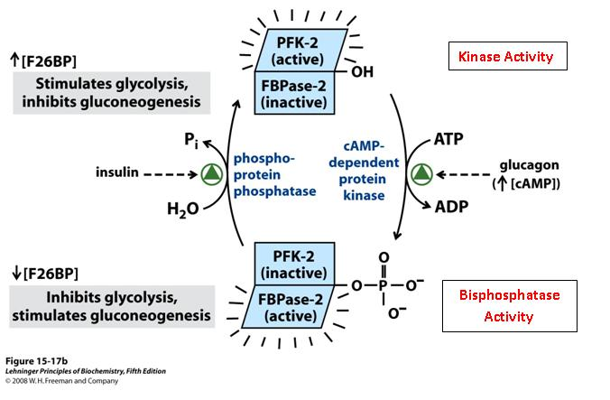 Schematic of PFK2 function.